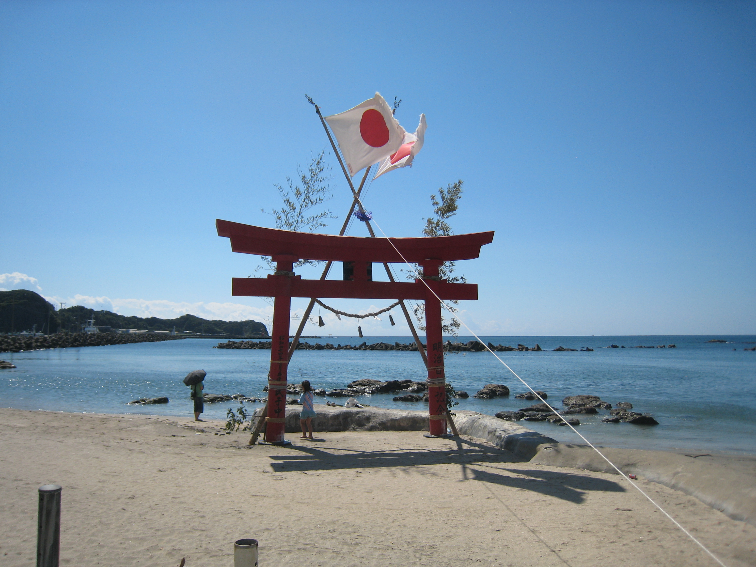 Torii at the Katsuura Chuo Beach